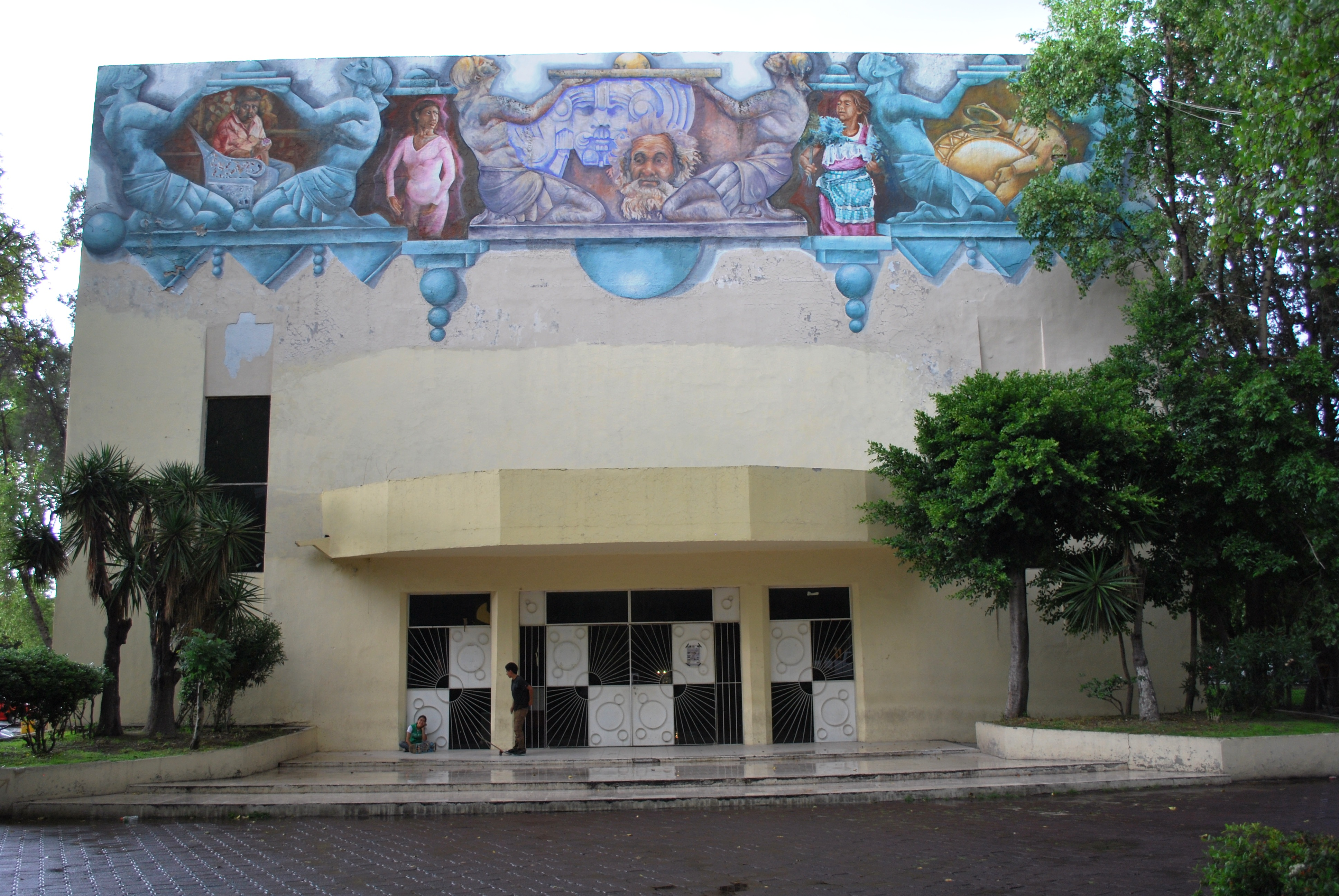 Mural on a building at the Venustiano Carranza Sports Park on Congreso de la Union in Mexico City